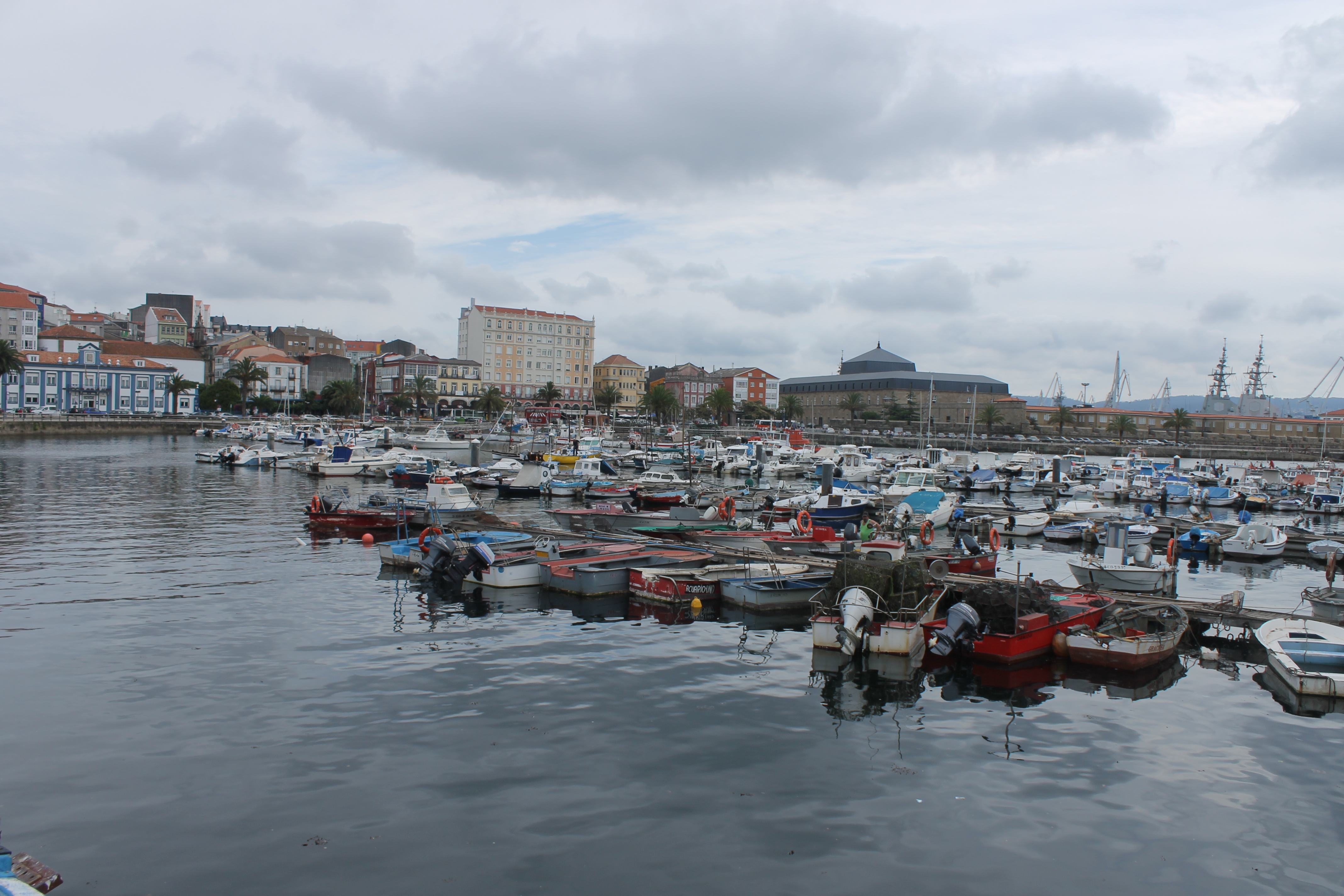 Ferrol's Marina, Spain